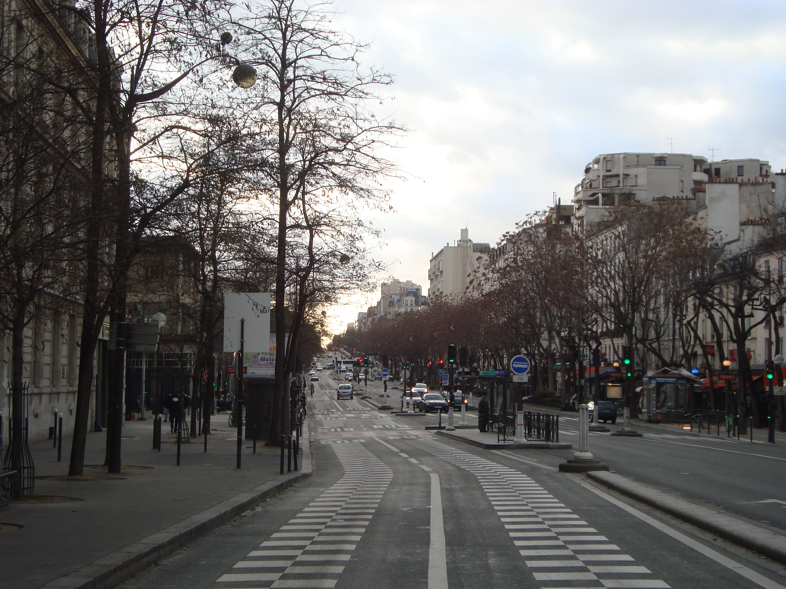 Boulevard de l'Hôpital in Paris